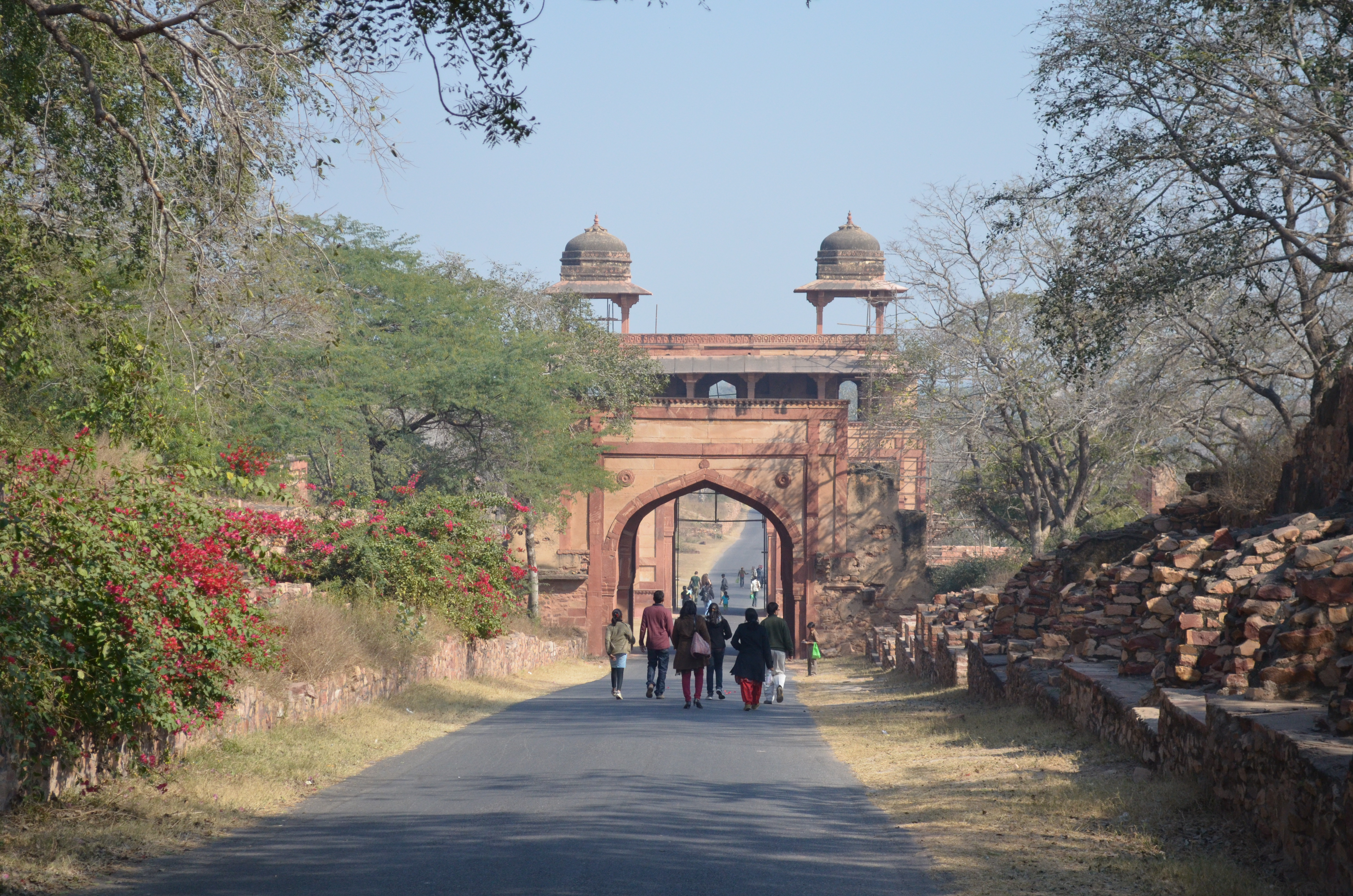 Fatehpur Sikri